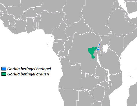 Eastern Gorilla (Gorilla beringei) range